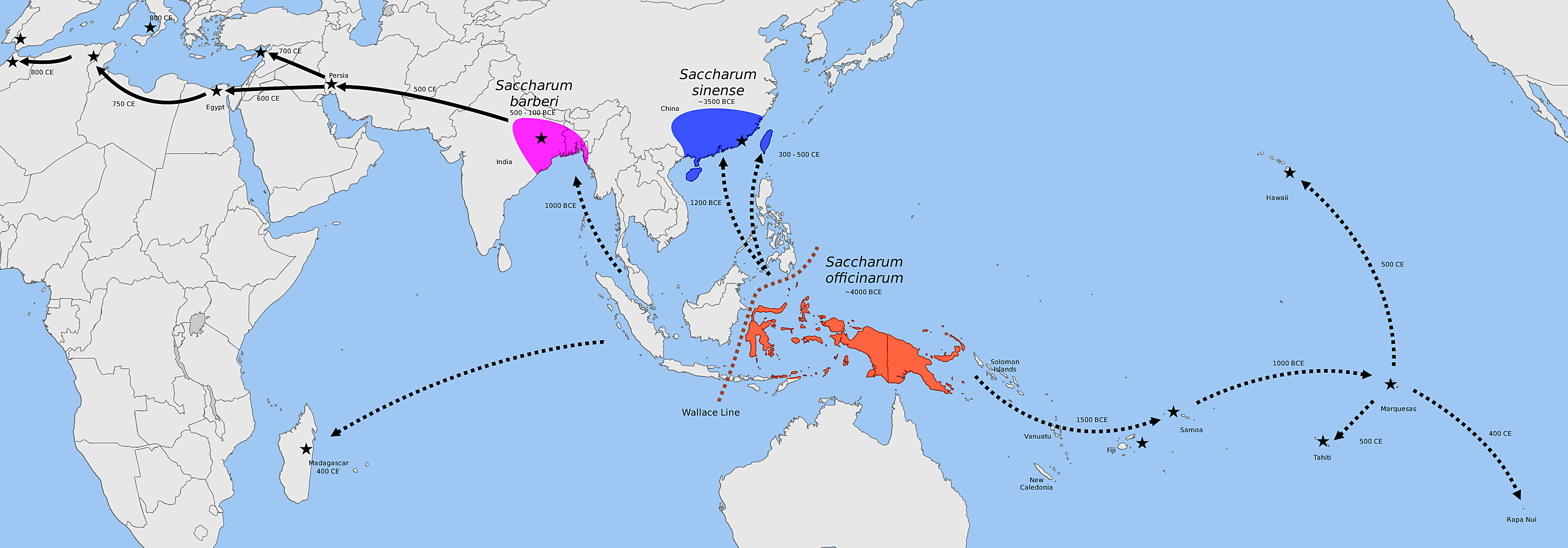 Map showing centers of origin of Saccharum officinarum in New Guinea, S. sinensis in China, and S. barberi in India. per: Daniels, Christian; Menzies, Nicholas K. (1996). Needham, Joseph, ed. Science and Civilisation in China: Volume 6, Biology and Biological Technology, Part 3, Agro-Industries and Forestry. Cambridge University Press. pp. 177–185. ISBN 9780521419994.